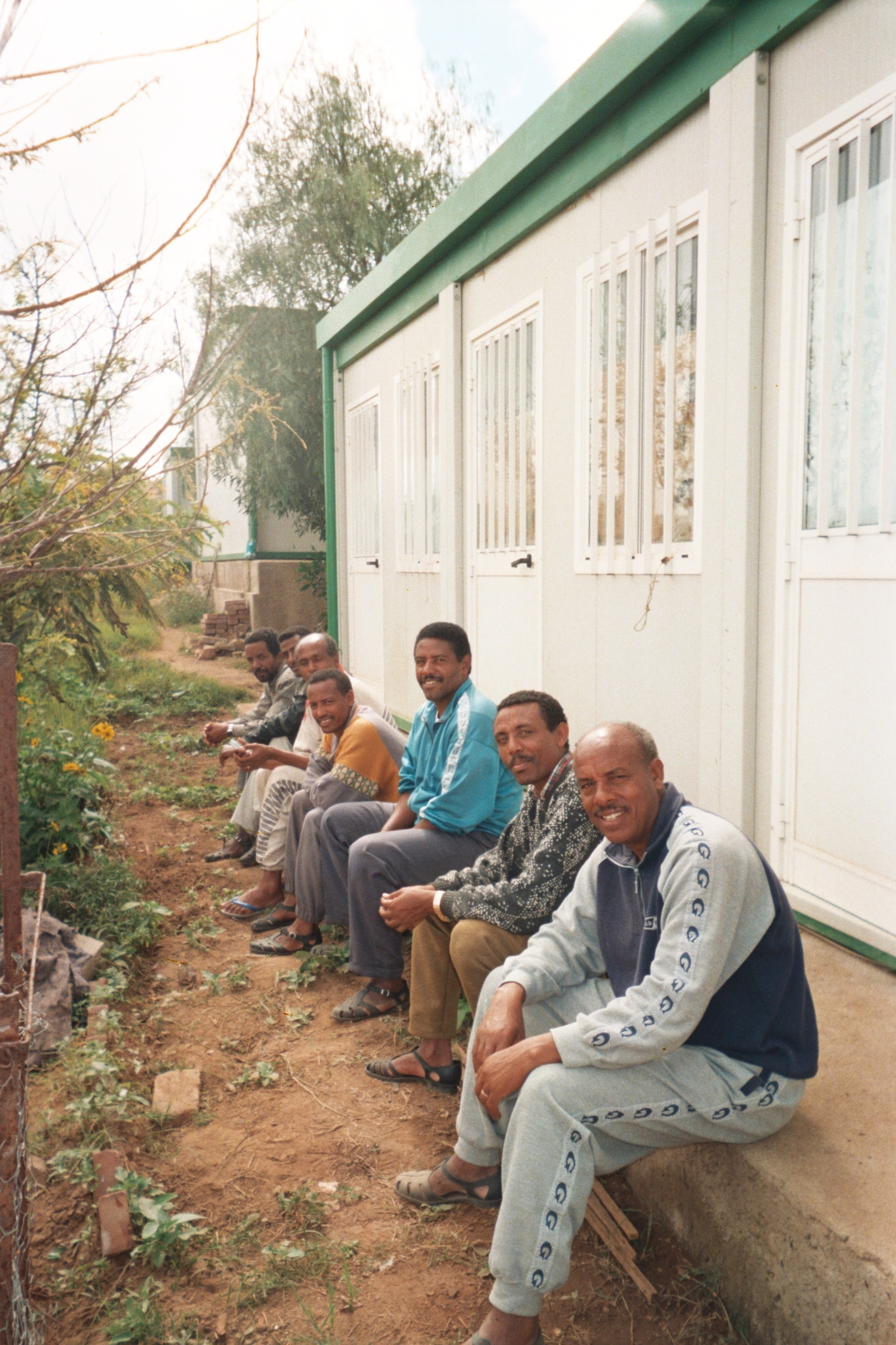 Nakfa Village, Eritrea, North Africa.